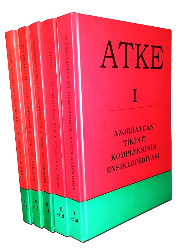 ATKE-5cild